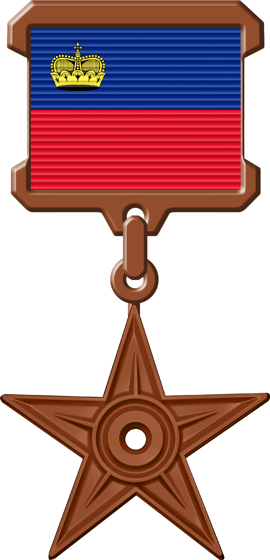 Barnstar v2.0 of National Merit - Liechtenstein